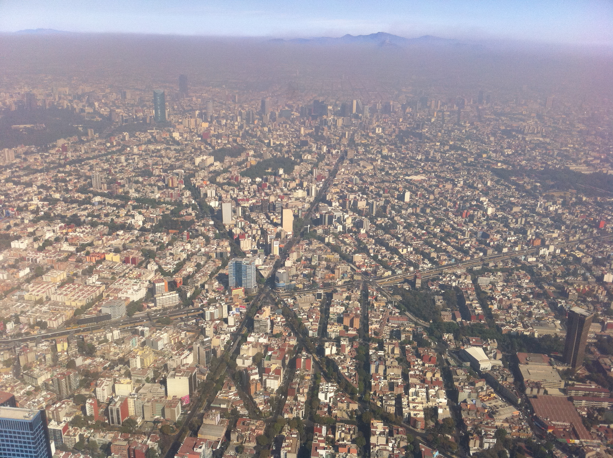 Aerial View of Mexico City Morning of 12/22/2010 Pollution Smog can be observed above the city